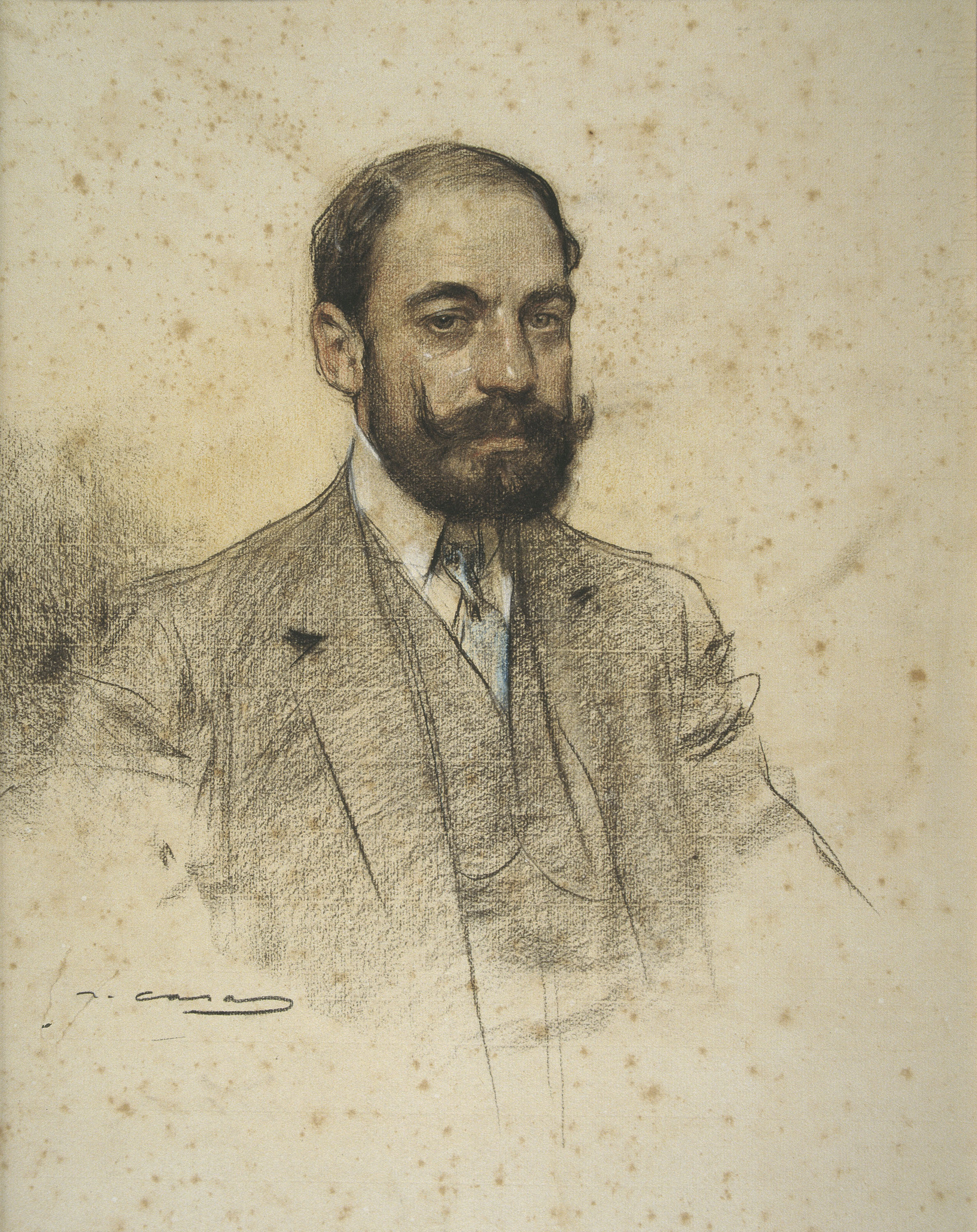 Portrait by Ramon Casas conserved at MNAC in Barcelona. Imagen 086